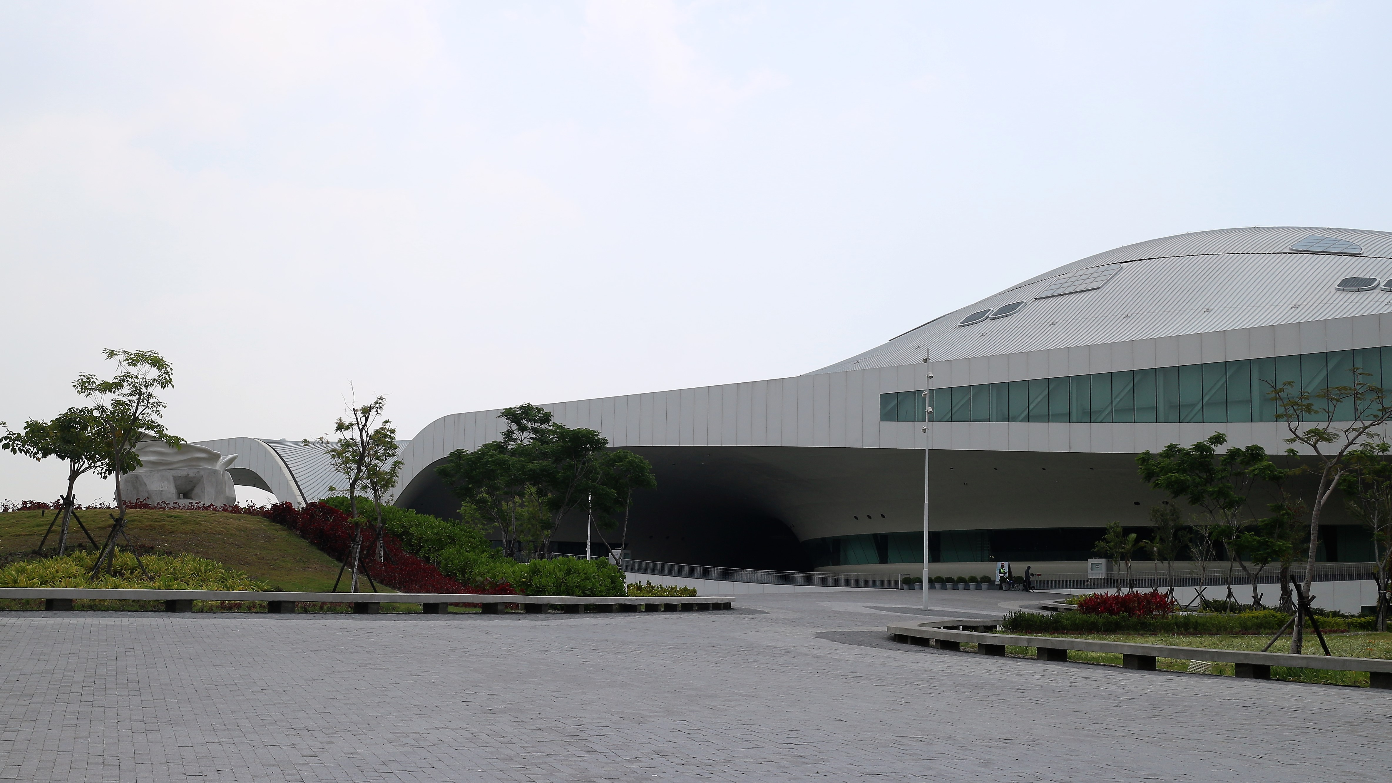 National Kaohsiung Center for the Arts (Weiwuying)